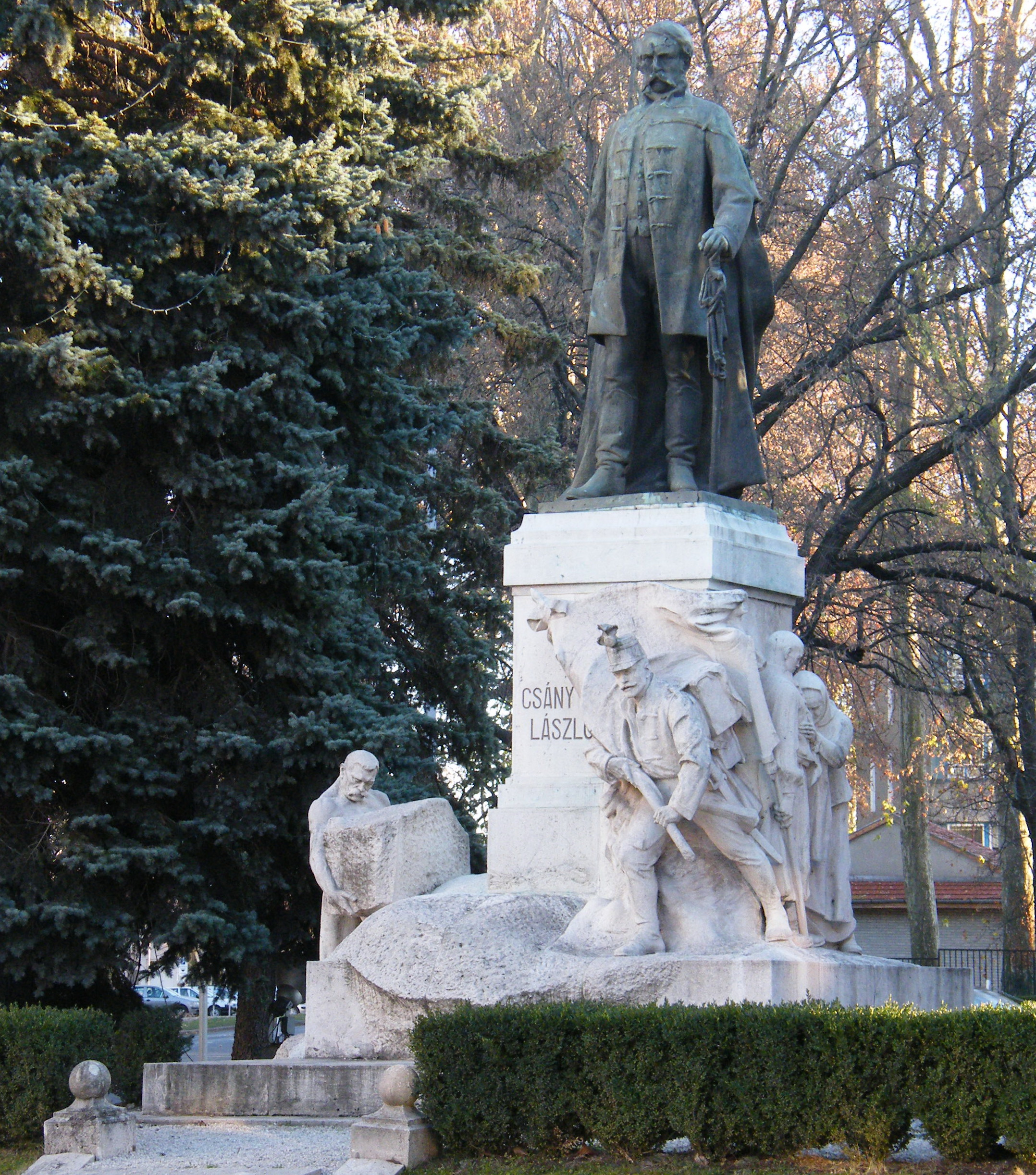 Statue of László Csány in Zalaegerszeg. Sculptor: János Istók (1873–1972) in 1931